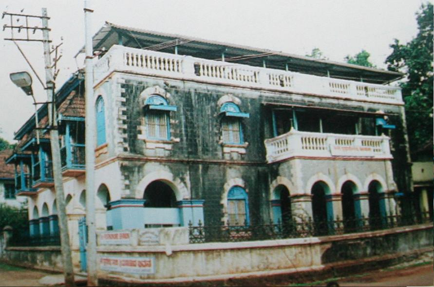 Shri Gaudapadacharya Mutt, Belgaum Branch